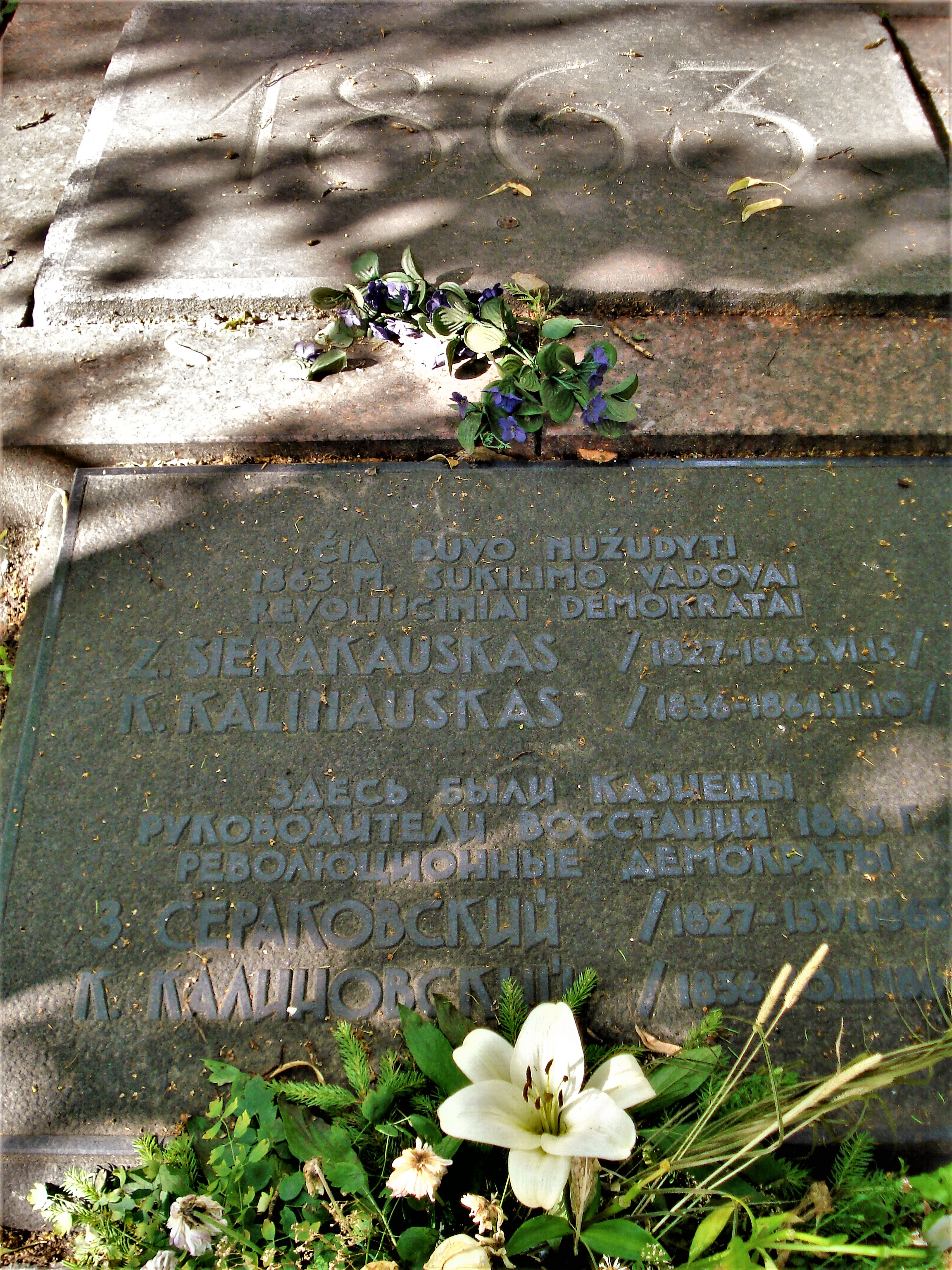 Memorial tablet in the place of Kastus Kalinouski and Zygmunt Sierakowski execution in the Lukiškės Squaree (Vilnius)